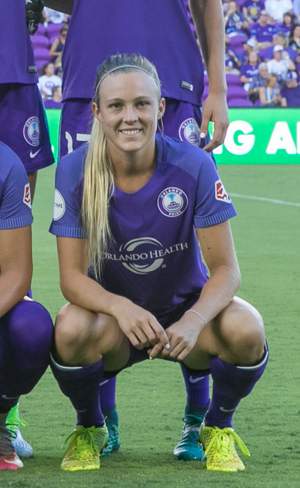 Rachel Hill playing for the Orlando Pride in 2017